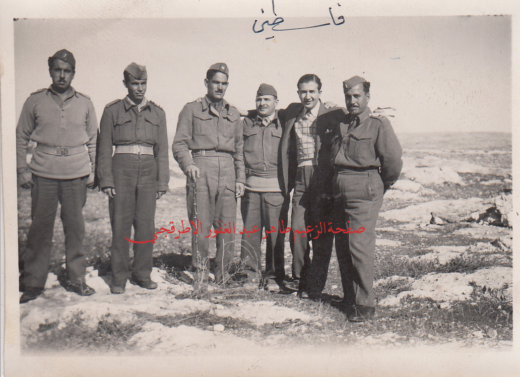 الزعيم طاهر عبد الغفور مع الزعيم عبد الكريم قاسم